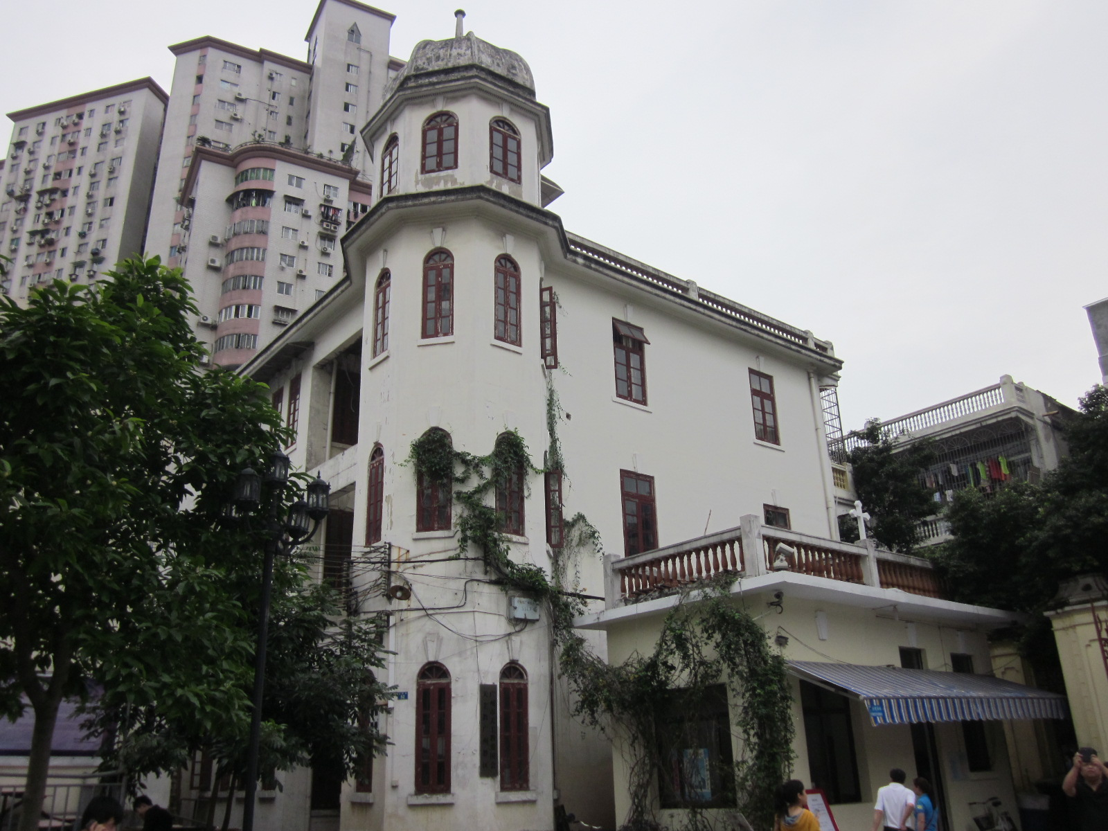 Cathedral of the Sacred Heart of Jesus in Yuexiu District, Guangzhou